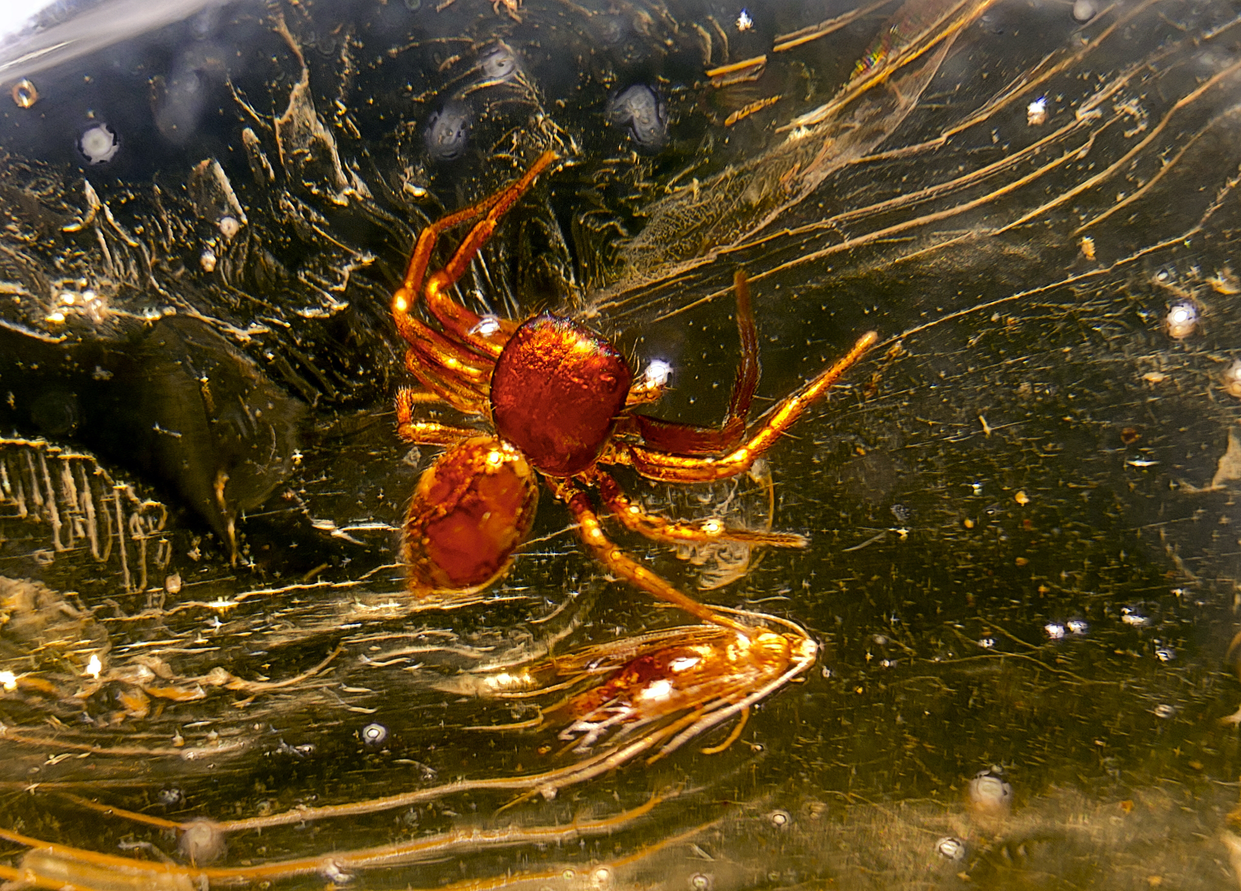 Spider (Salticidae) in copal from Madagascar. Size of specimen 3.2 mm